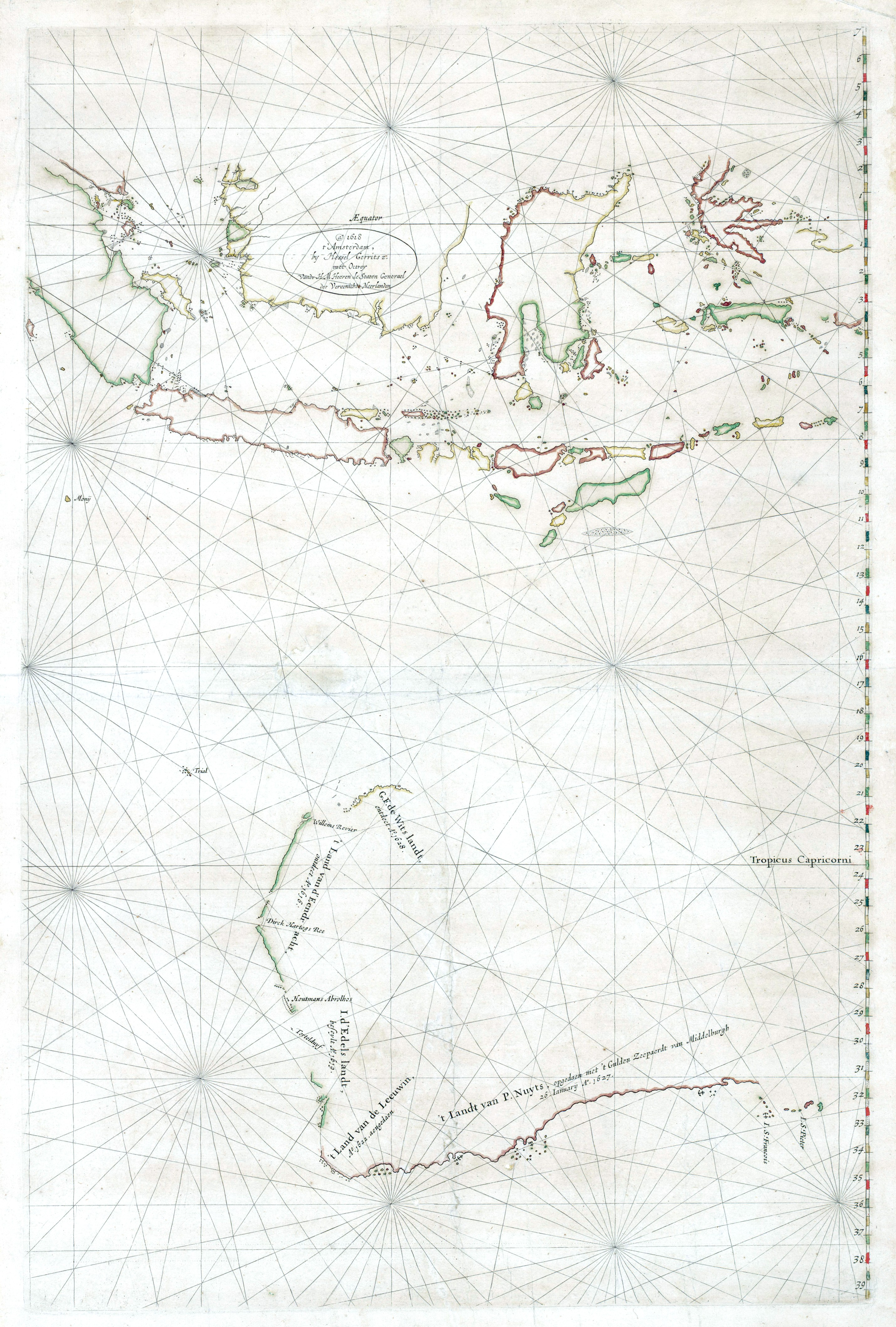 Chart of the Malay Archipelago and the Dutch discoveries in Australia